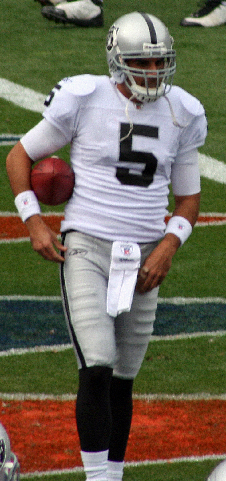 "Bruce Raymond Gradkowski is an American Football quarterback for the Oakland Raiders of the National Football League"--Wikipedia.